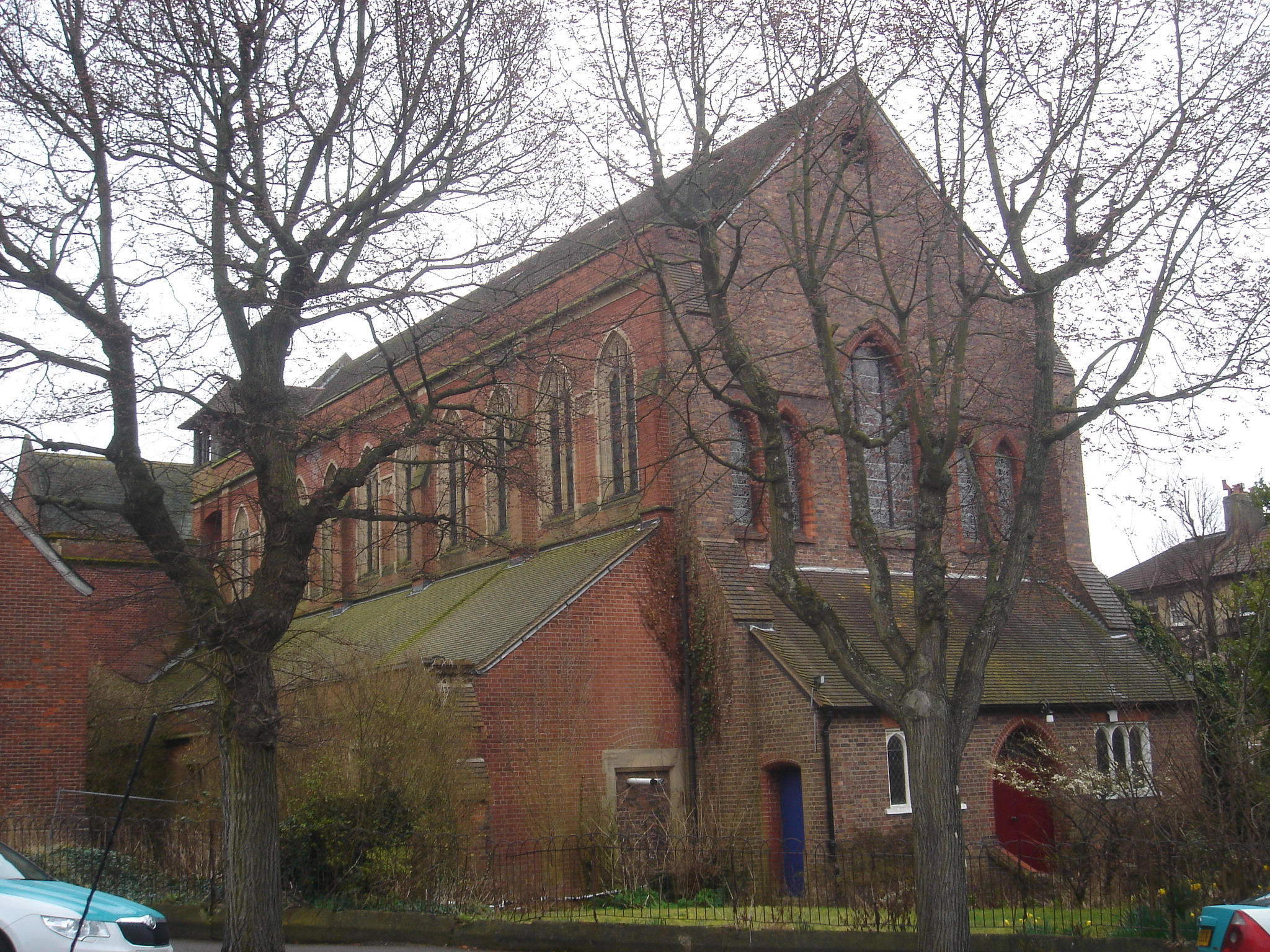 Former Church of England parish church of St Augustine, Stanford Avenue, Brighton, East Sussex, England. Nave built 1896, chancel added 1914, church closed in 2002.